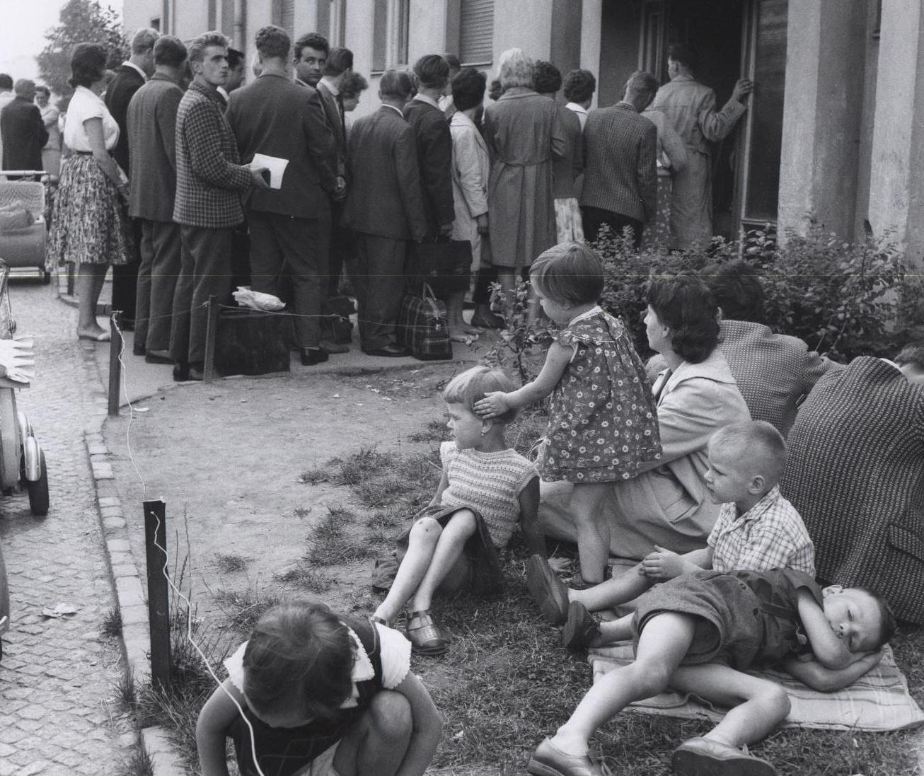 Refugees from Berlin’s East Zone wait to be processed at the Marienfelde Refugee Camp in West Berlin in July 1961. From the booklet "A City Torn Apart: Building of the Berlin Wall." For more information, visit CIA's Historical Collections webpage (